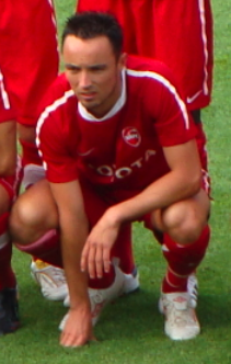 Gael Danic (Valenciennes FC)